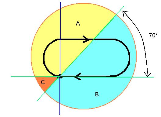 Holding pattern, Holding, Warteschleife